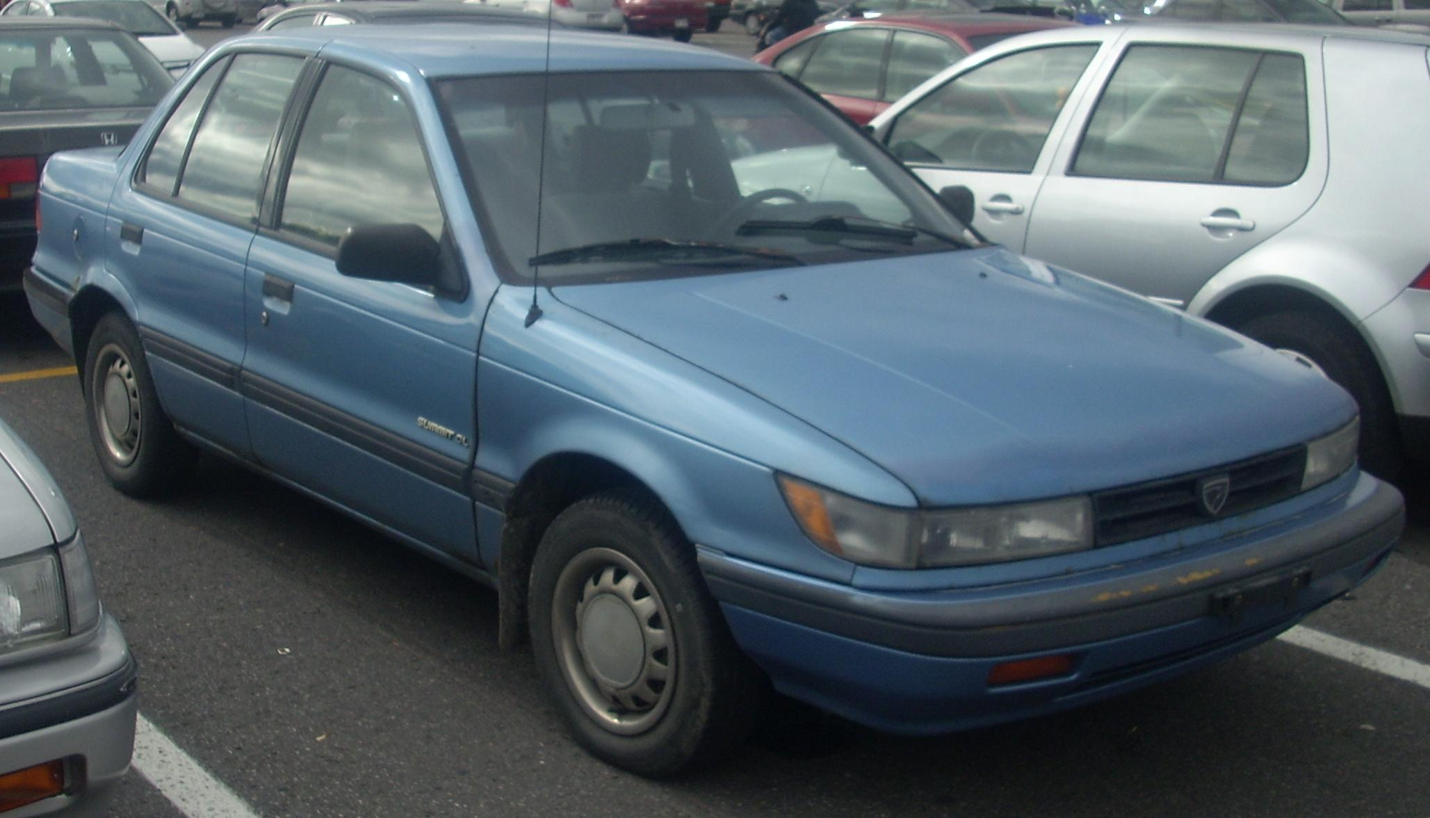 Eagle Summit photographed in Montreal, Quebec, Canada.